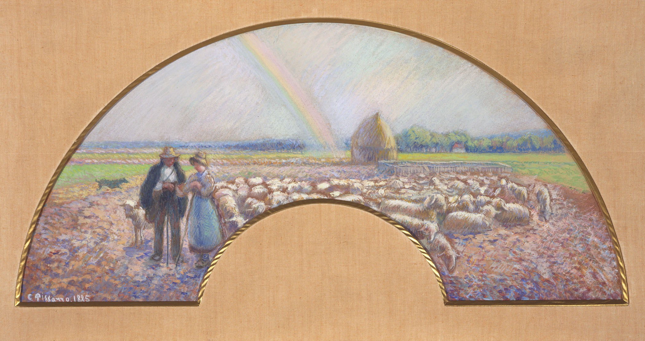 France, 1885 Drawings Gouache and pastel on silk Sheet: 11 5/8 x 24 3/4 in. (29.53 x 62.87 cm) fan shaped Gift of Arnold S. Kirkeby (57.64) Prints and Drawings